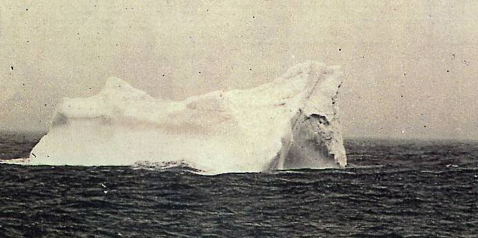 Photo of the iceberg which was probably rammed by the RMS Titanic.